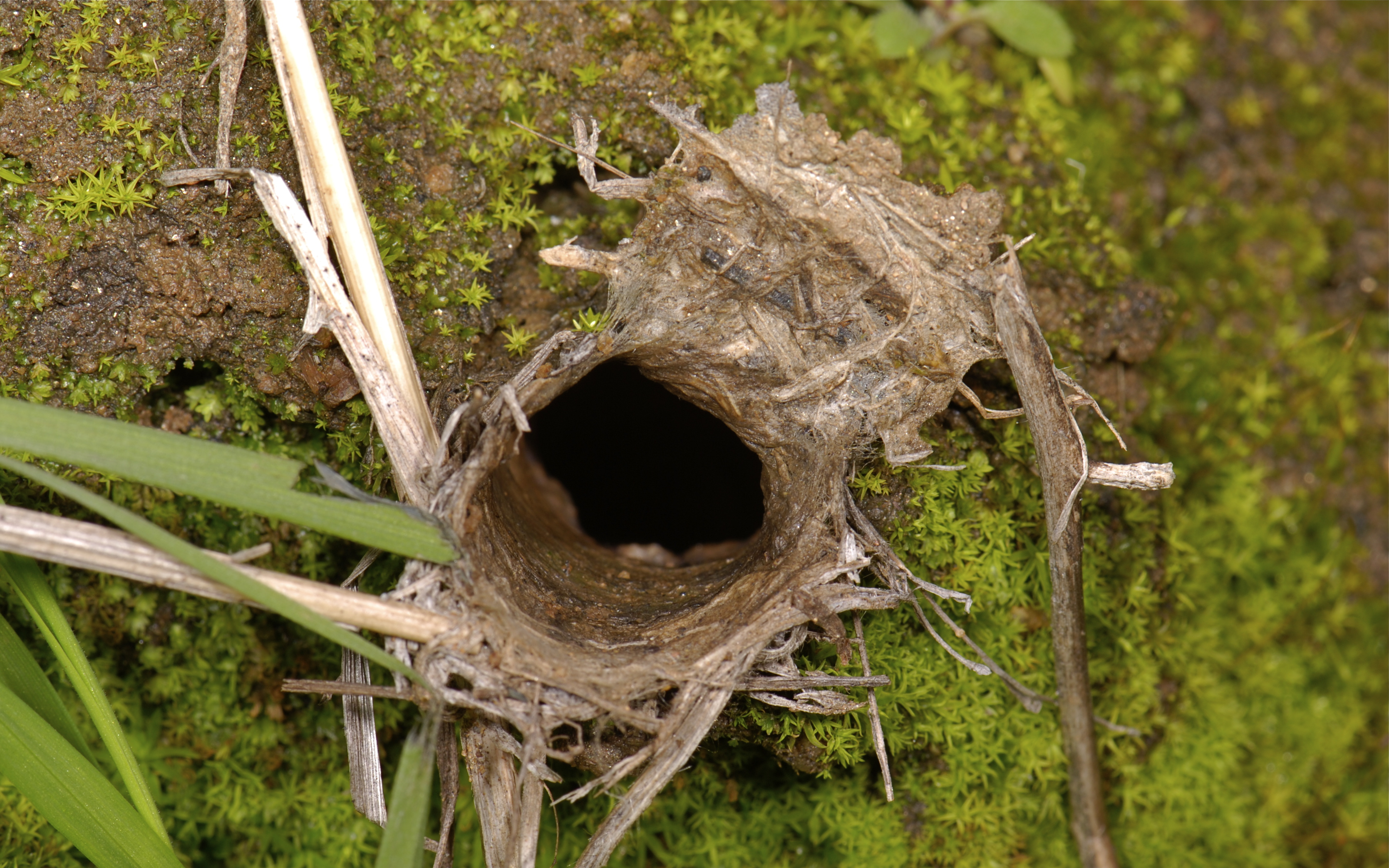 Trapdoor of spider Aptostichus sp. (Cyrtaucheniidae). Photo taken in Flinn Springs (California, USA)